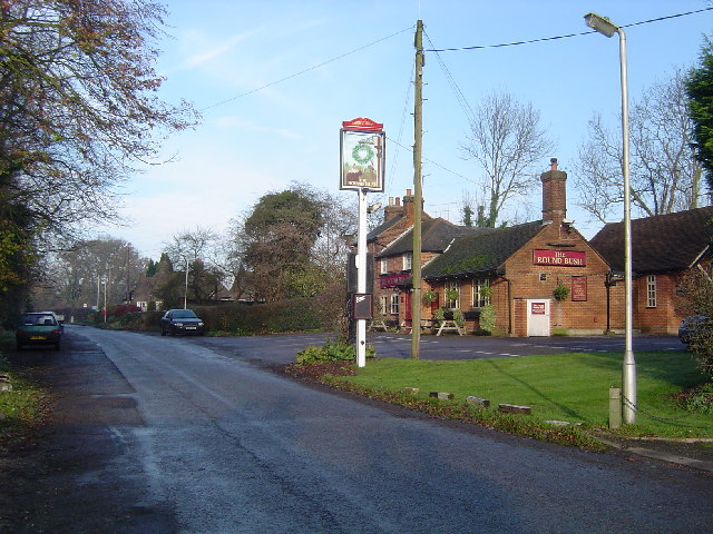 Round Bush. Centre of this small village with the eponymous pub in view.